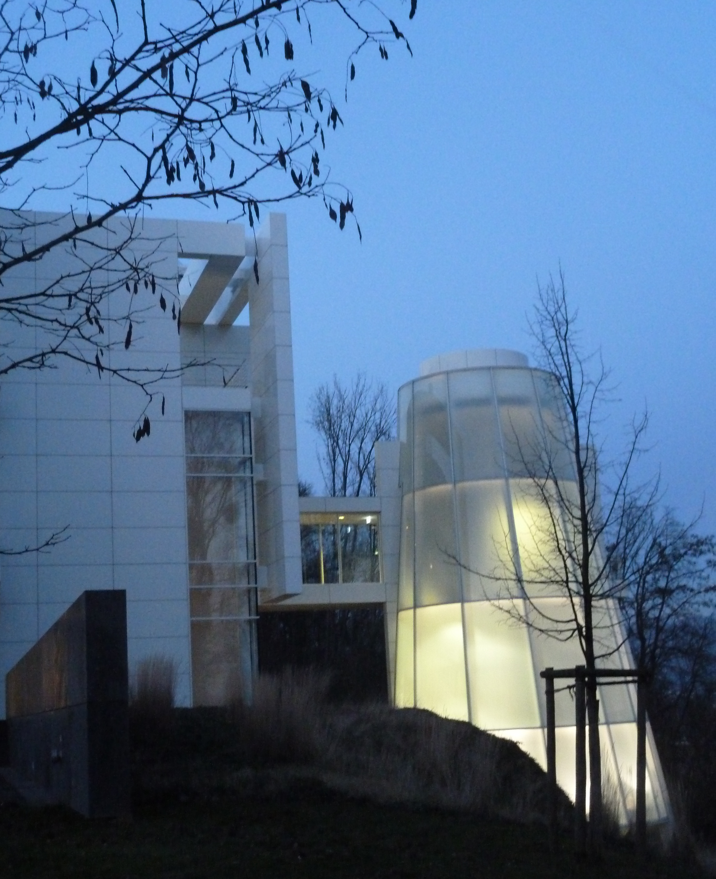 Arp Museum Bahnhof Rolandseck, south side; architect Richard Meier